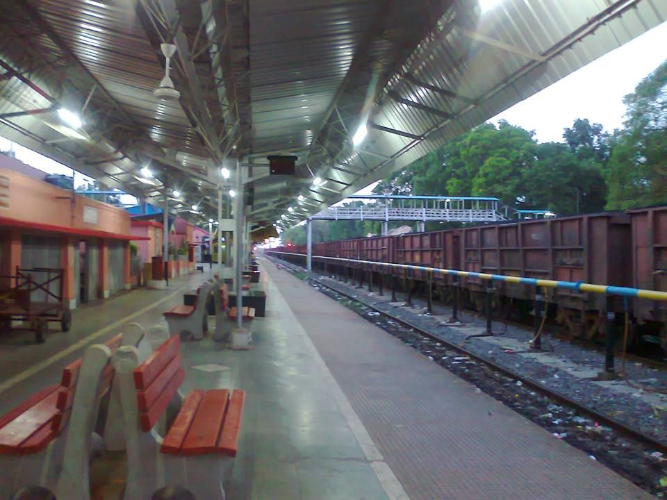 Titlagarh Railway Station view in the Early Morning